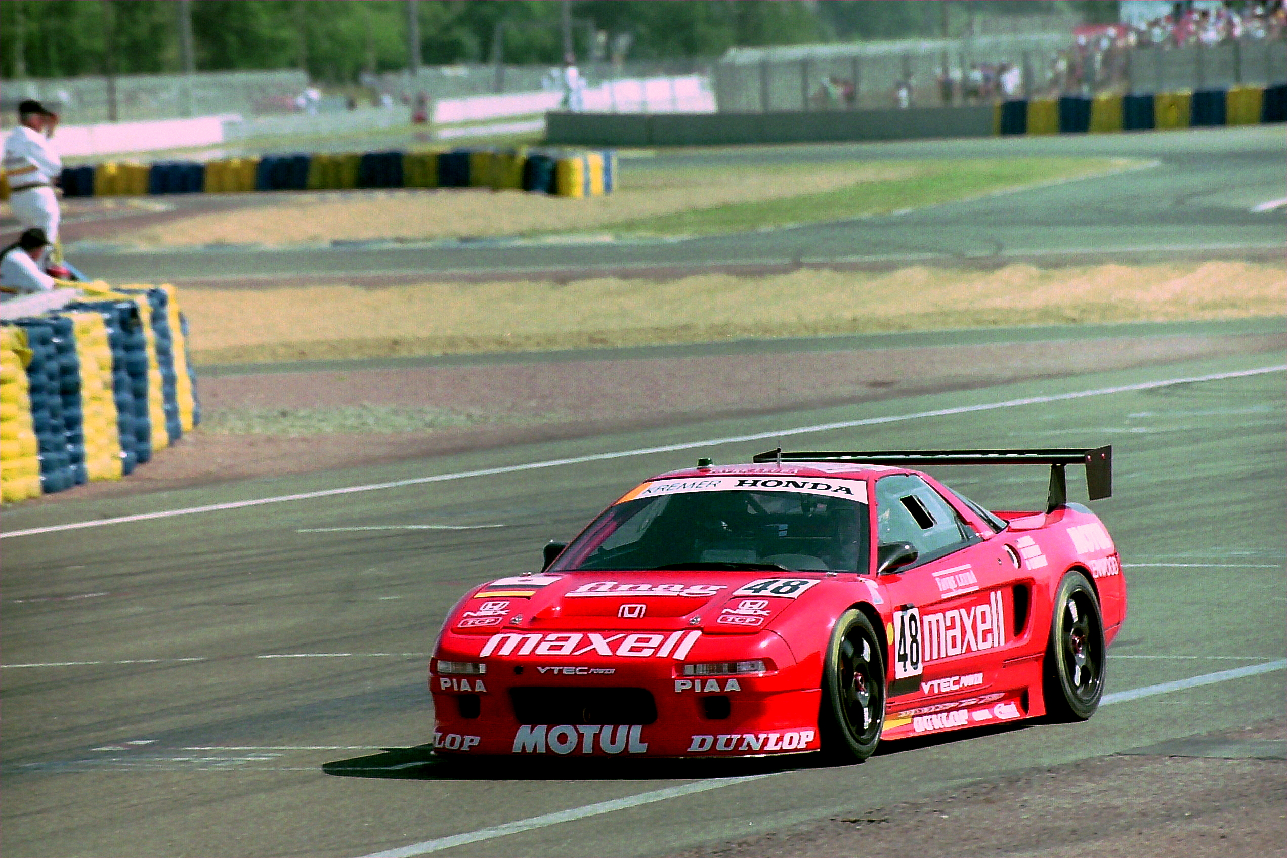 Honda NSX - Armin Hahne, Christophe Bouchut & Bertrand Gachot enters the pit straight at the 1994 Le Mans